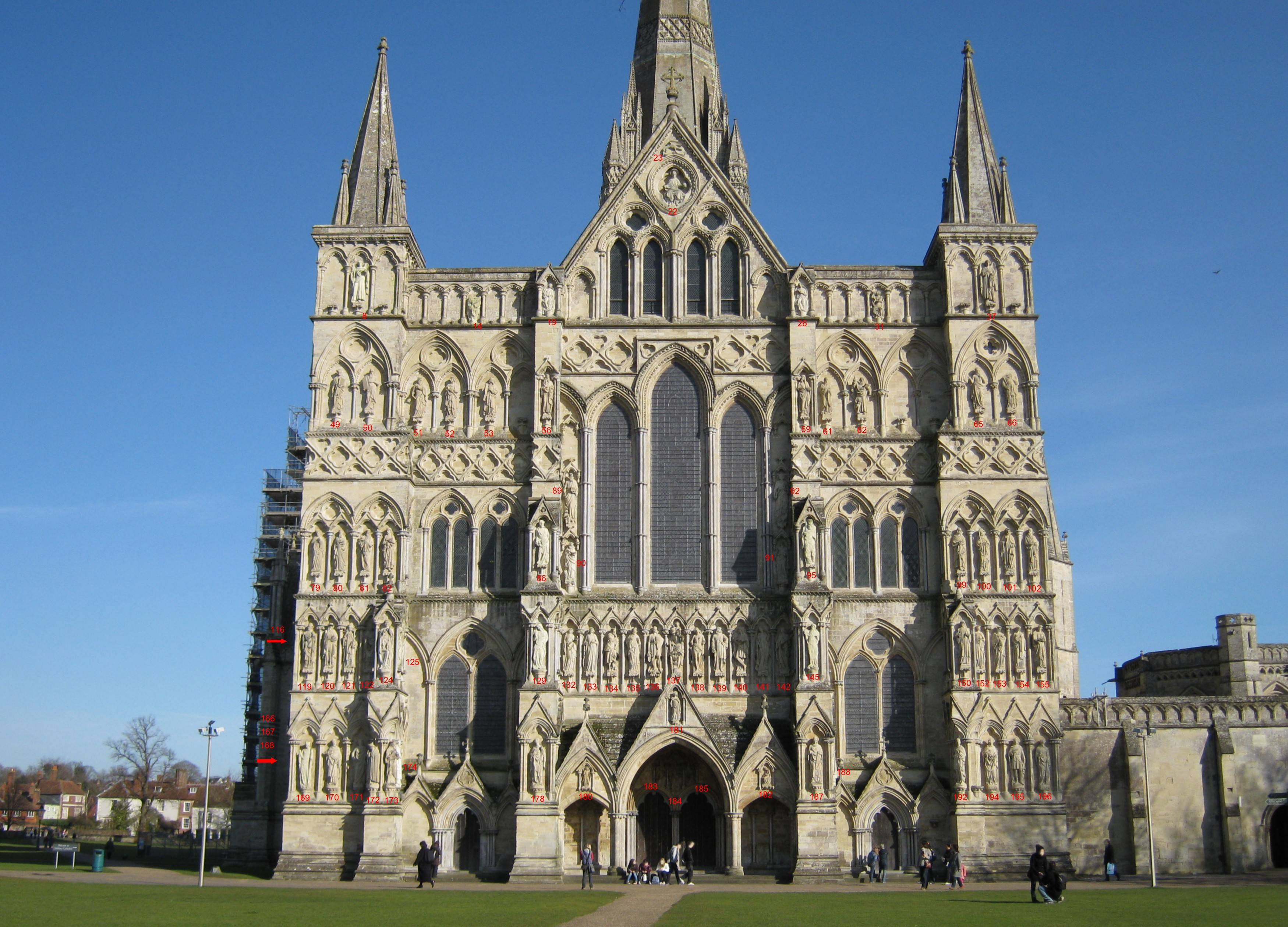 The West Front of Salisbury Cathedral with superimposed numbers to identify the niches containing statues.